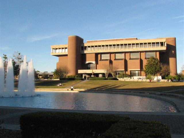 Image of UCF library and the reflection pond in the afternoon.